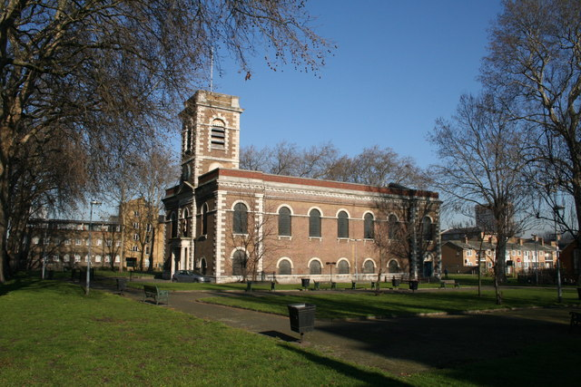 St Matthew's parish church, Bethnal Green, London E2, seen from the south